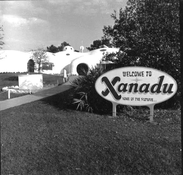 A photo of a welcome sign and path leading to the entrance of the Xanadu House that was located in Kissimmee, Florida.